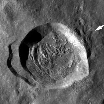 Wide Angle Camera (WAC M119048299ME) view from the LRO team at NASA/GSFC/Arizona State University.